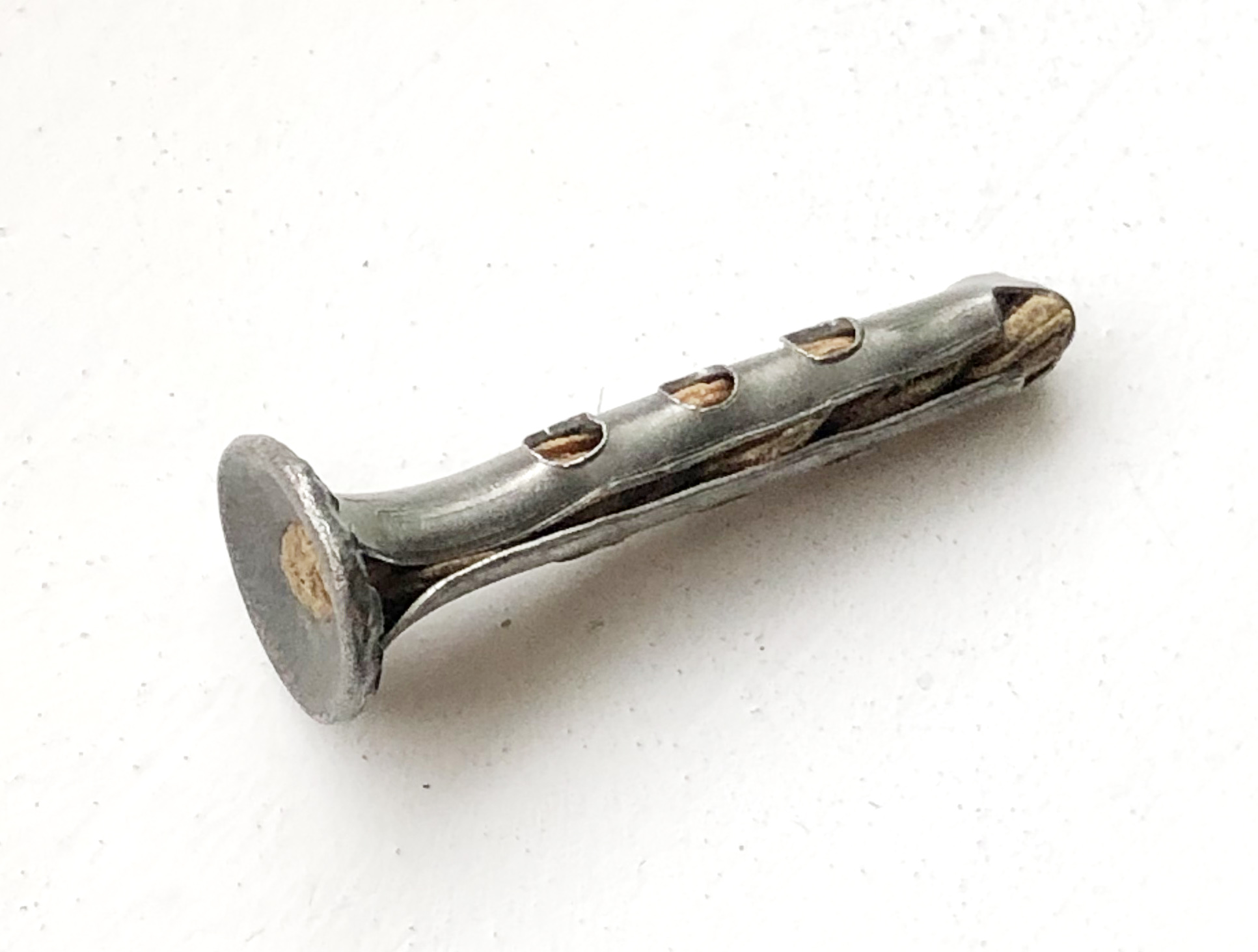 Dowel made in the middle of the 20th century